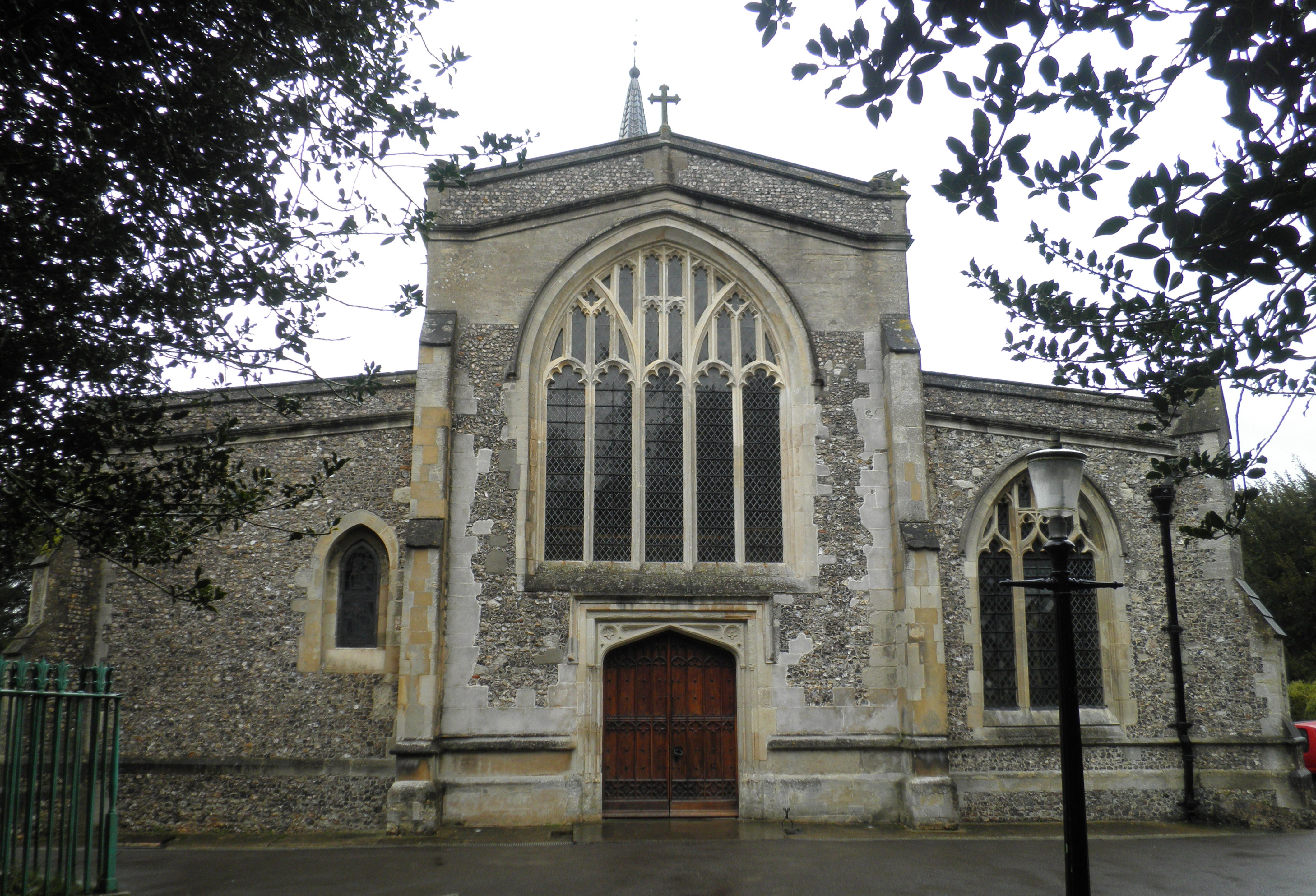 St Mary's Church, Chesham, Buckinghamshire